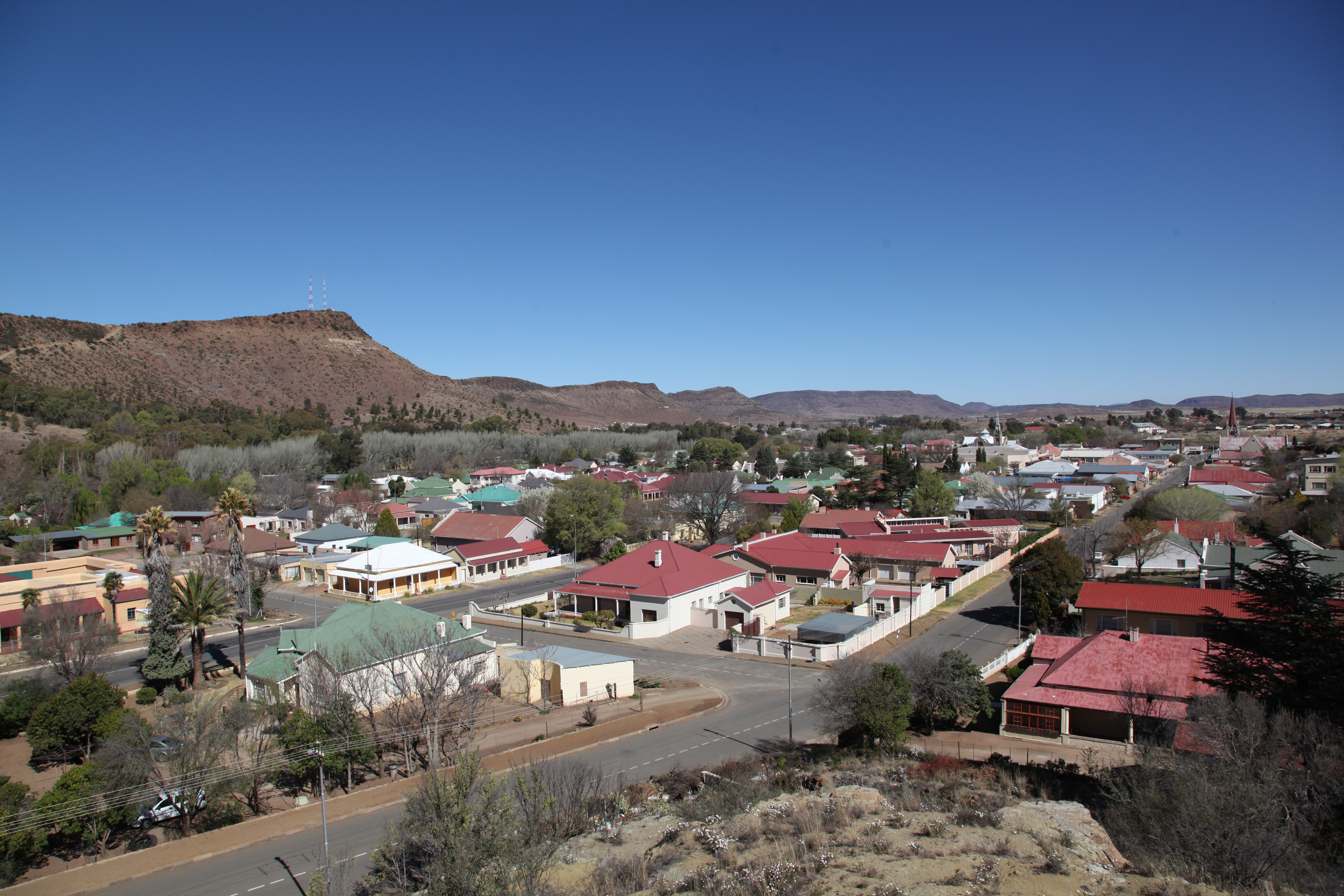 View of Burgersdorp from The Sentinel - Eastern Cape - South Africa